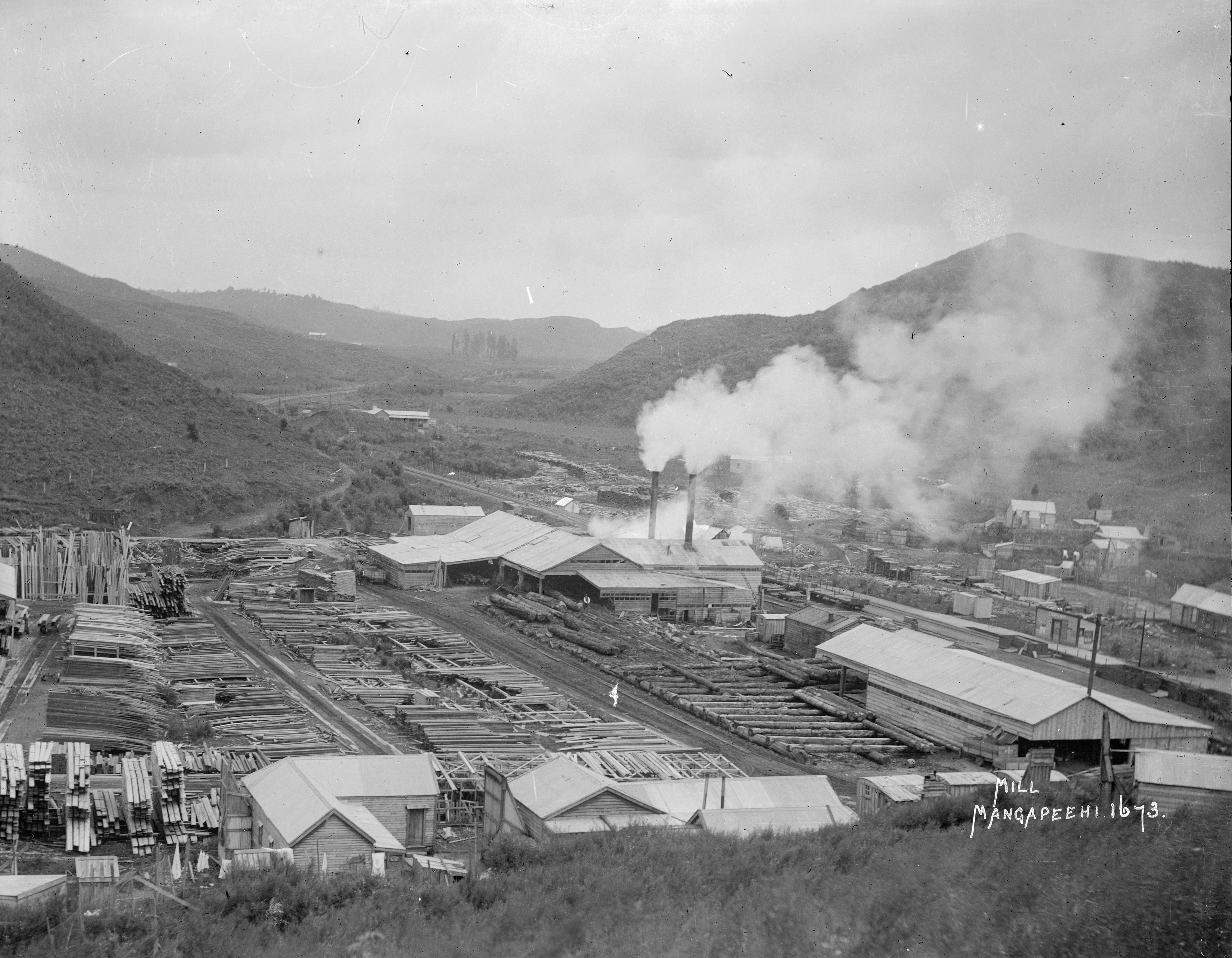 The Mangapehi Sawmill, Ellis & Burnand Ltd. Photograph taken by William A Price between 1900 and 1930. Inscriptions: Inscribed - Photographer's title on negative -bottom right: Mill. Mangapeehi [No.] 1673. Quantity: 1 b&w original negative(s). Physical Description: Dry plate glass negative Mangapehi Sawmill, Ellis & Burnand Ltd. Price, William Archer, 1866-1948 :Collection of post card negatives. Ref: 1/2-000756-G. Alexander Turnbull Library, Wellington, New Zealand.